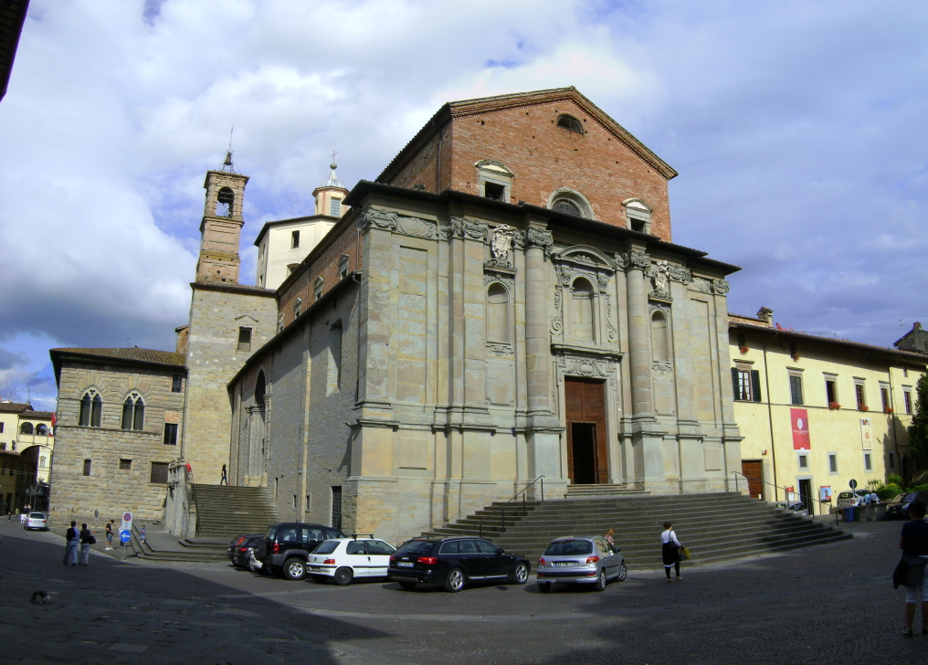 The cathedral of Città di Castello, in the province of Perugia, Umbria